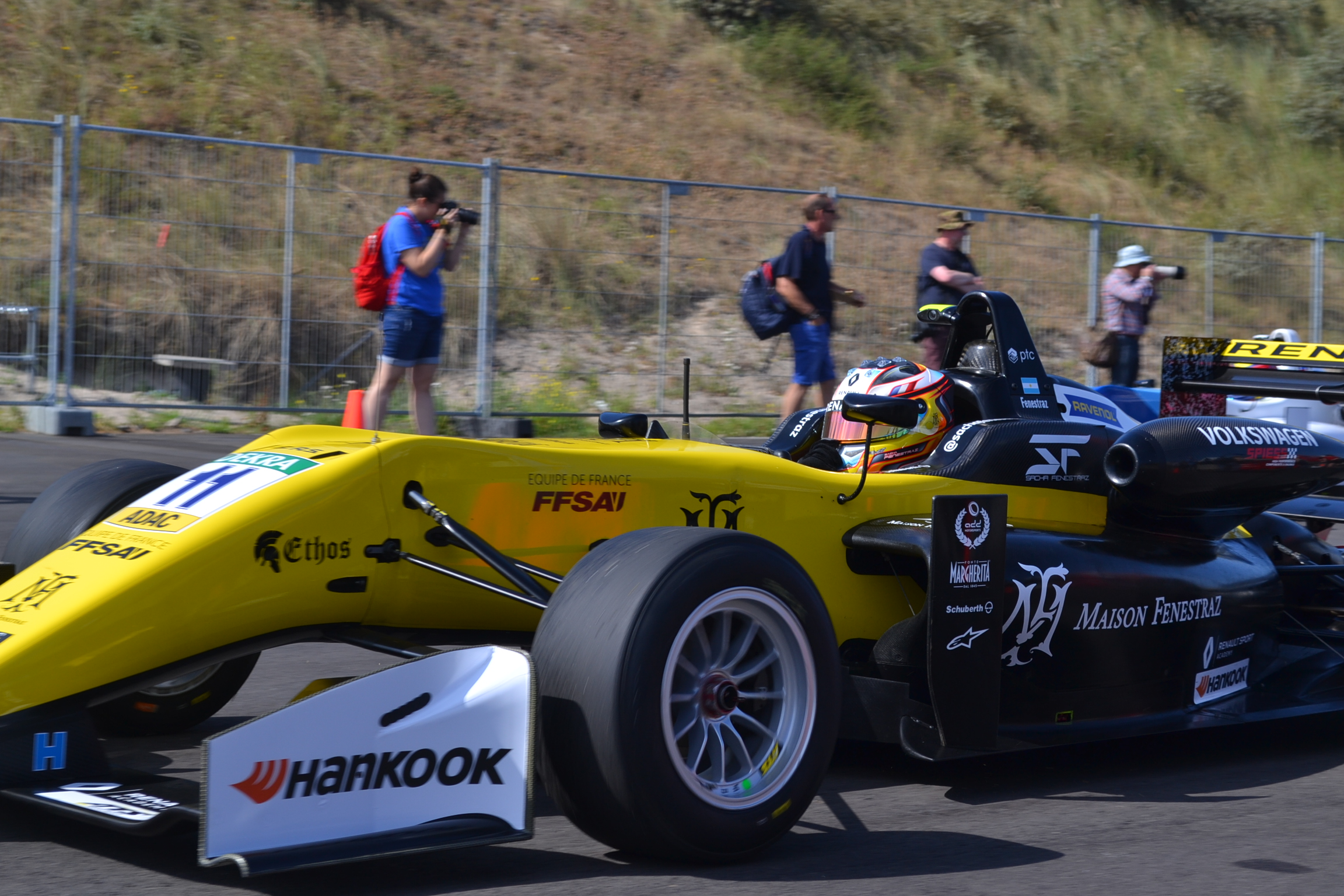 Sacha Fenestraz during the FIA Formula 3 round at Zandvoort in 2018.